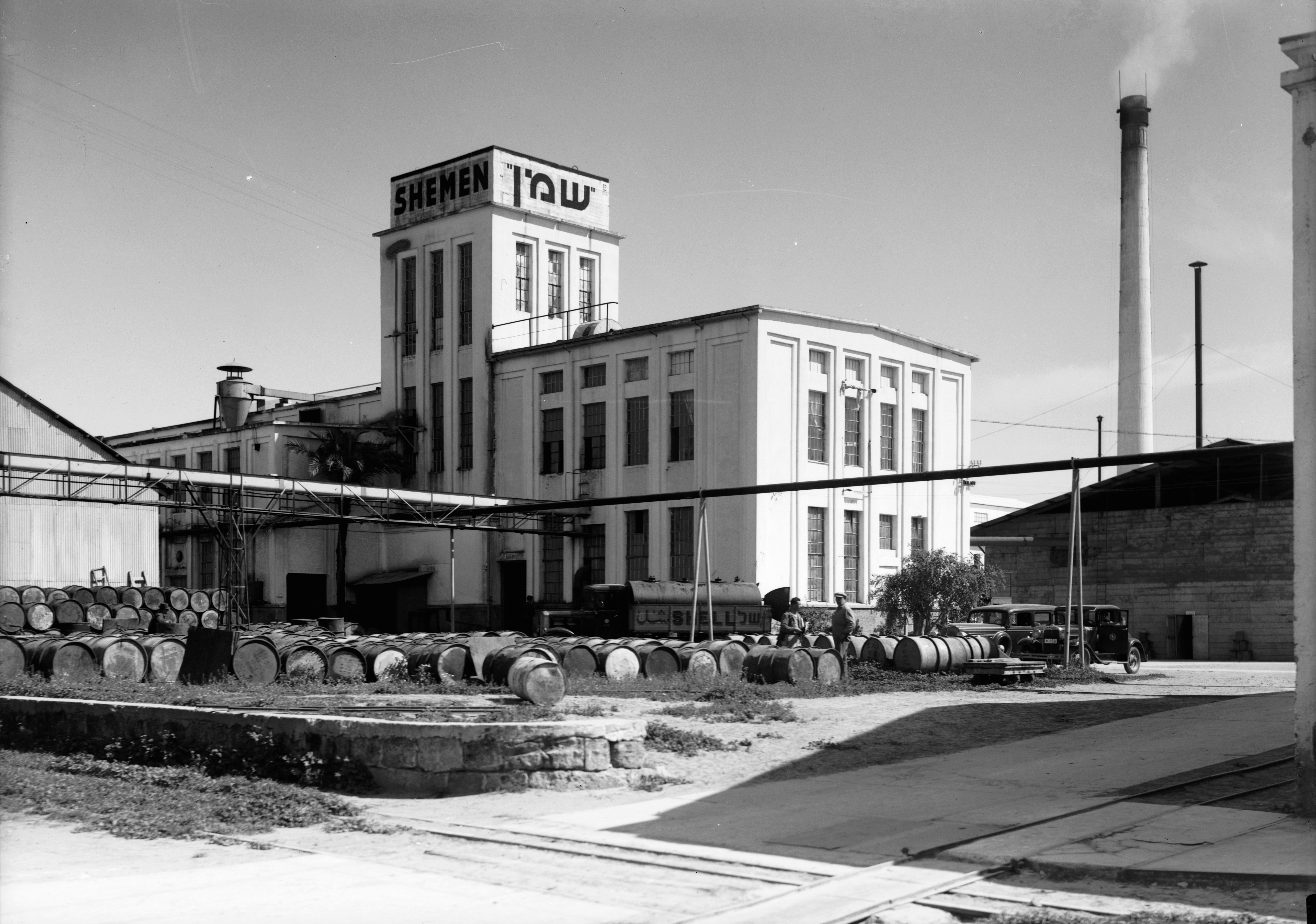 Jewish factories in Palestine on Plain of Sharon & along the coast to Haifa. Haifa. "Shemen" oil works. The seed milling dep't [i.e., department]